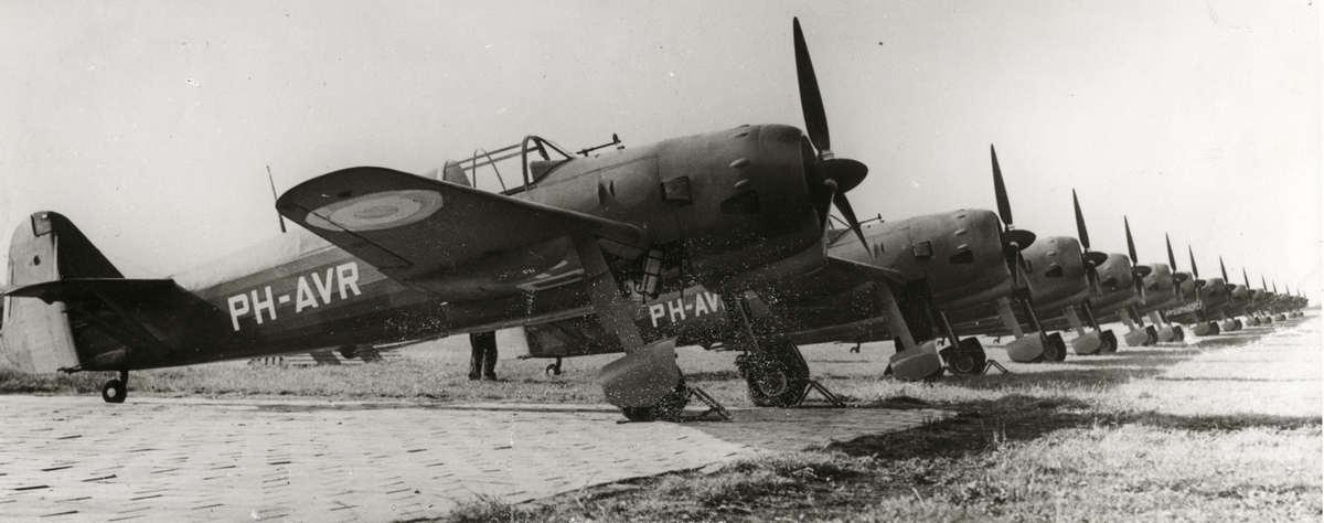 Jachtvliegtuigen voor Nederlandse luchtmacht bij de Koolhoven vliegtuigfabriek nabij vliegveld Waalhaven, 1939.